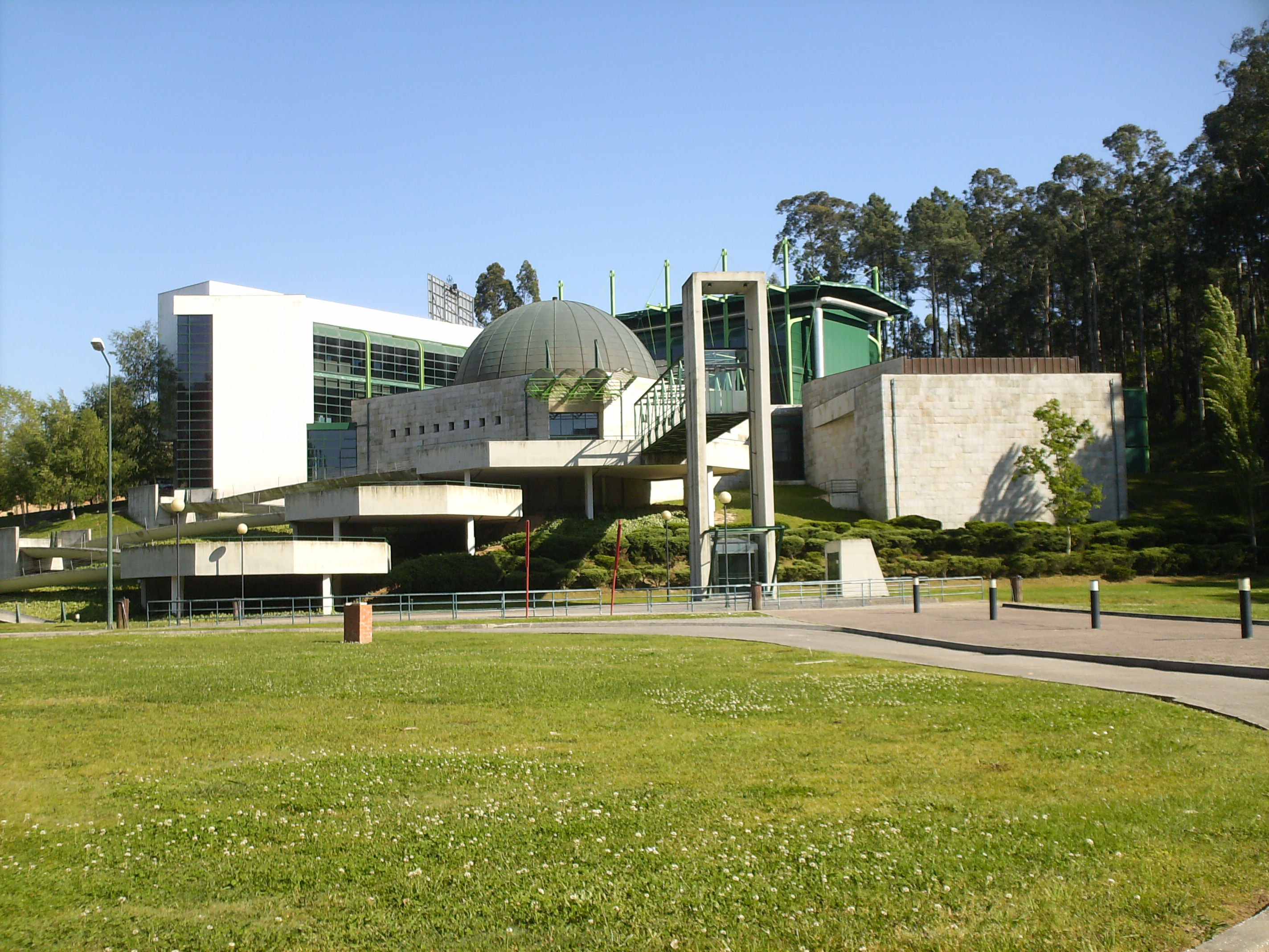 Visionarium, Europarque, Santa Maria da Feira, Portugal